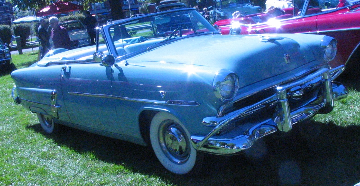 1953 Ford Crestline Sunliner photographed in Salaberry-De-Valleyfield, Quebec, Canada at Auto antique Salaberry-De-Valleyfield 2011.